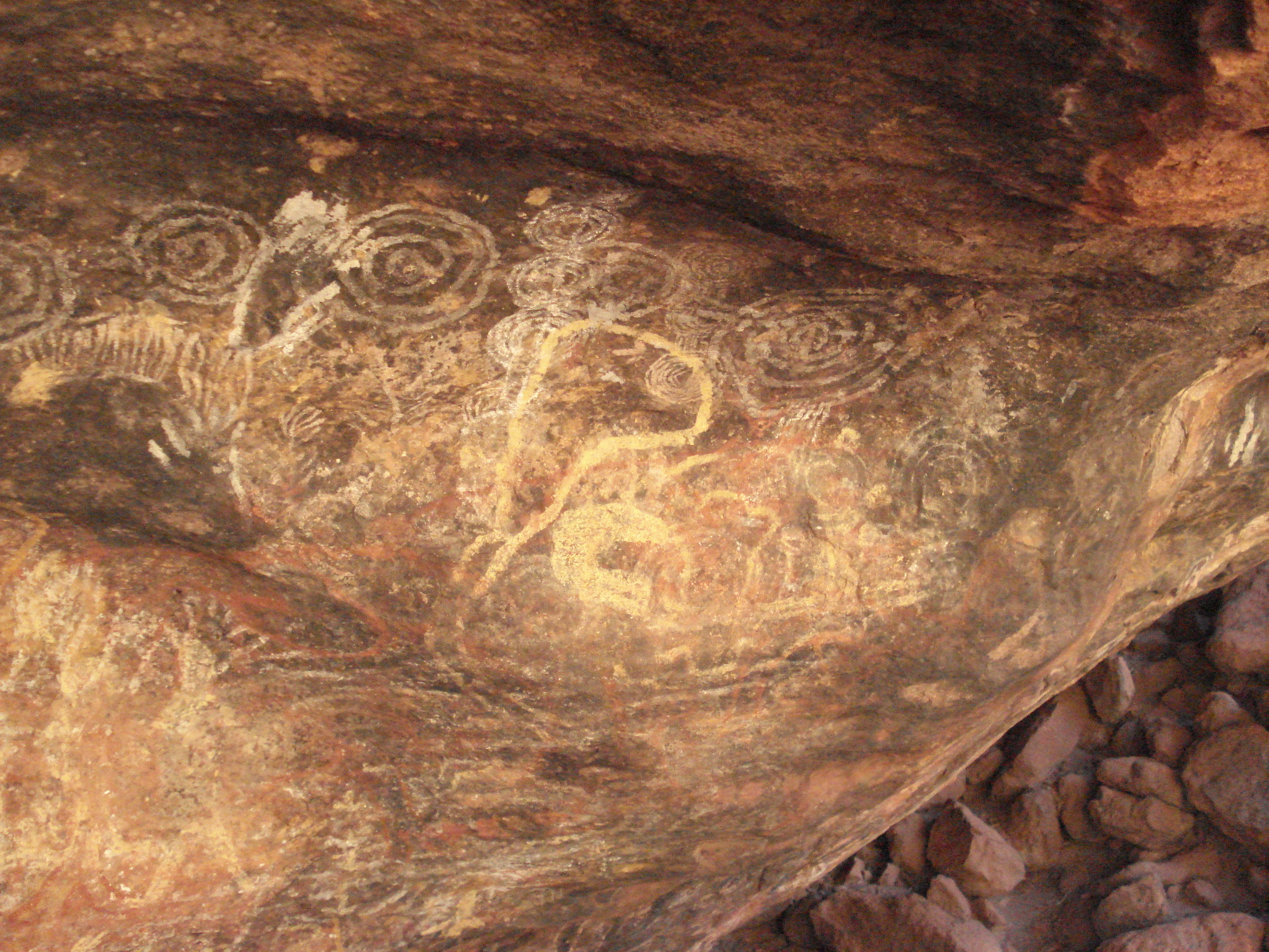 Aboriginal rock art in panaramitee style; Uluru